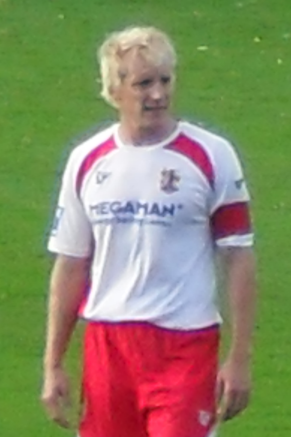 Mark Roberts